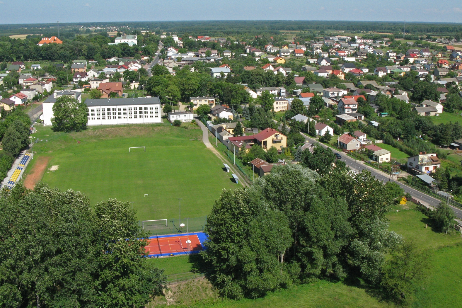 Aerial photo of the soccer stadium and the sports hall in Siennica, Poland.